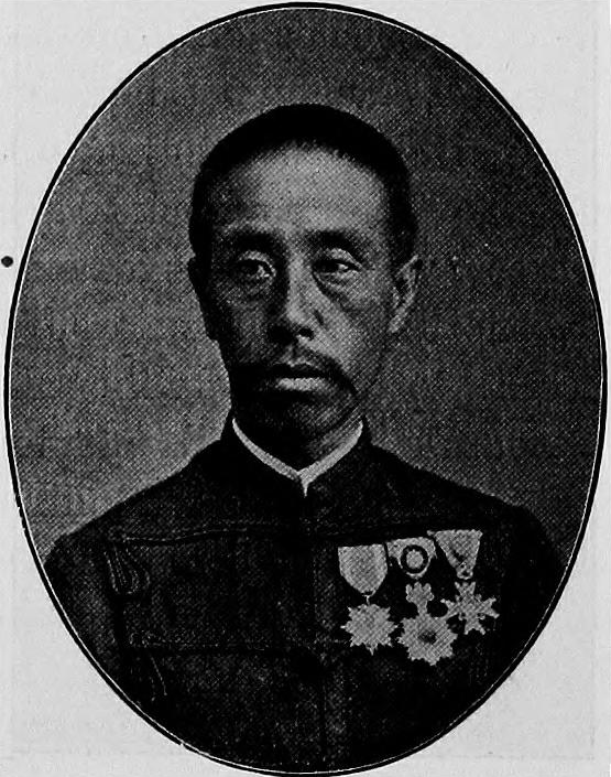 Major Kagawa